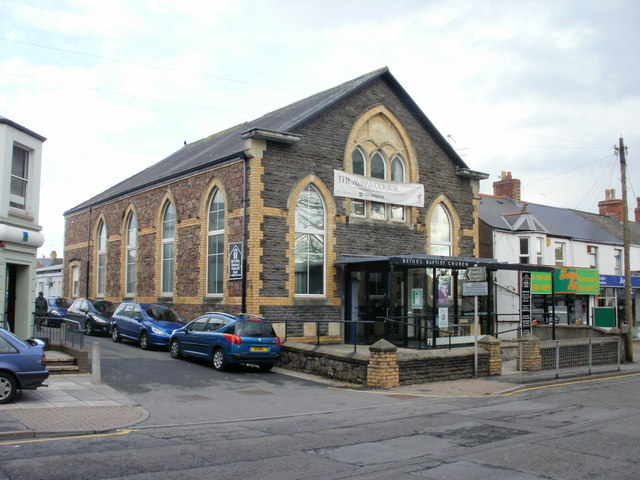 Bethel Baptist Church, Whitchurch, Cardiff Located on Penlline Road, on the corner of Old Church Road. Opened in 1894.